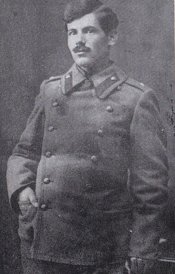 bulgarian revolutionary